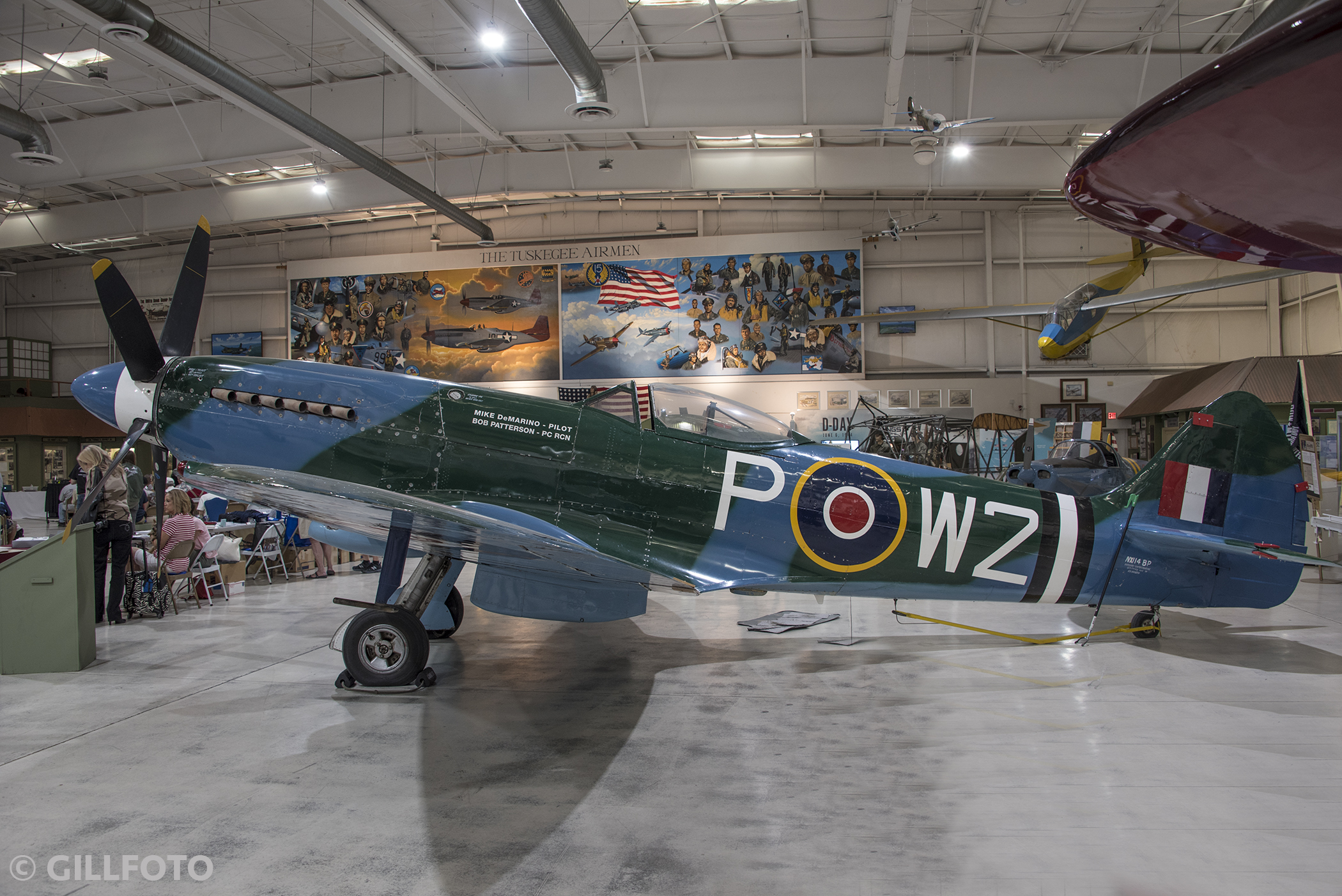 Supermarine Spitfire, Palm Springs Air Museum